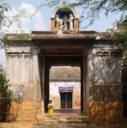 Kudalur chokkanathar temple கூடலூர் சொக்கநாதர் கோயில்